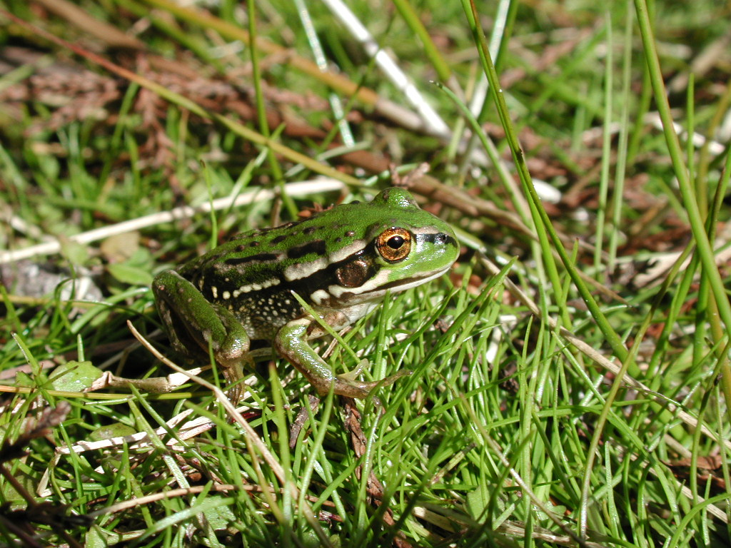 Juvenile Southern Bell Frog at Arohaki Lagoon in Whirinaki Forest Park near Rotorua, New Zealand. The frog is about 2cm long.